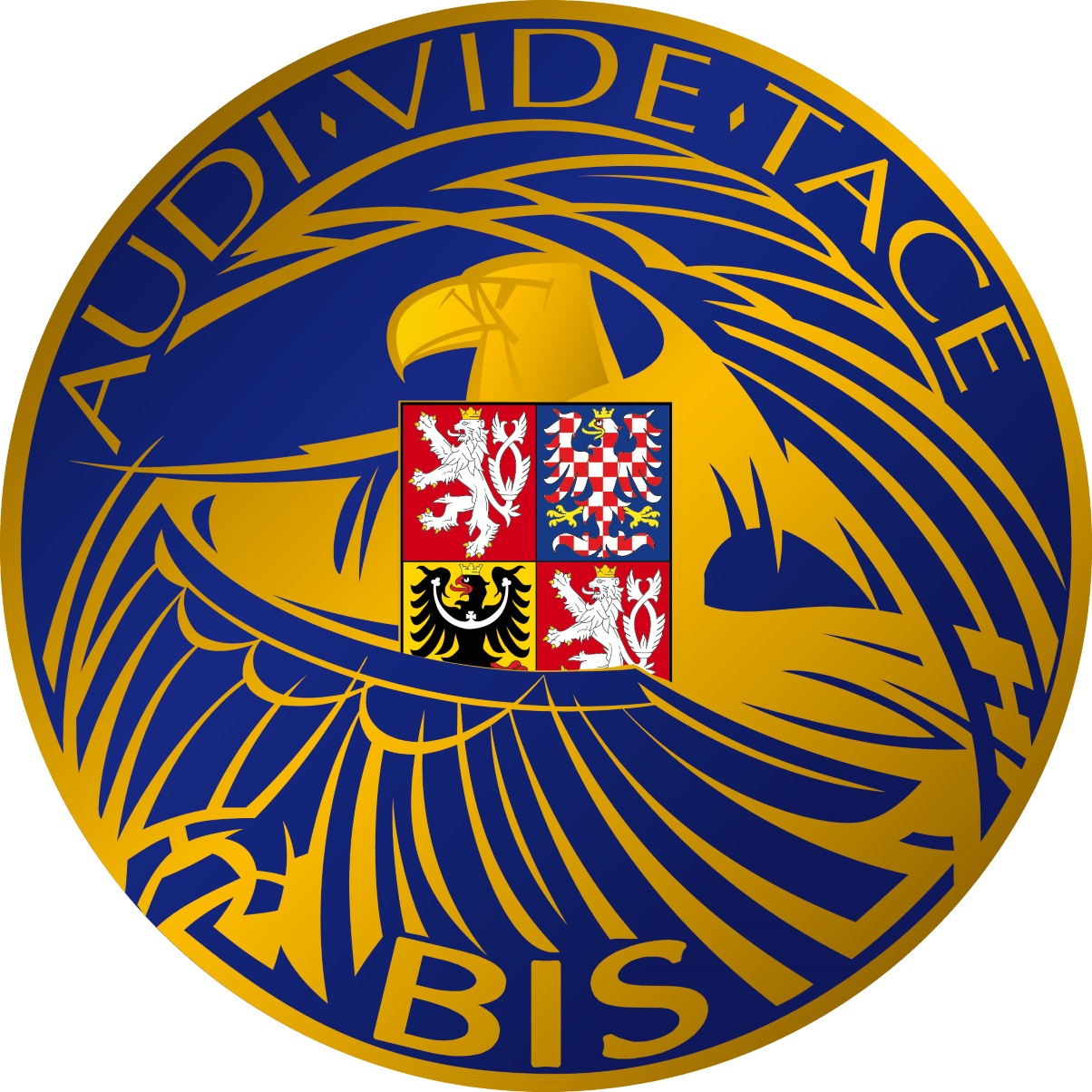 Seal of the BIS - Security Information Service of the Government of the Czech Republic